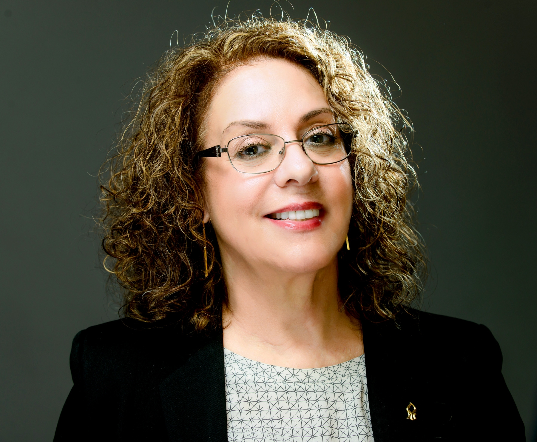 Prof. Carmi's profile picture